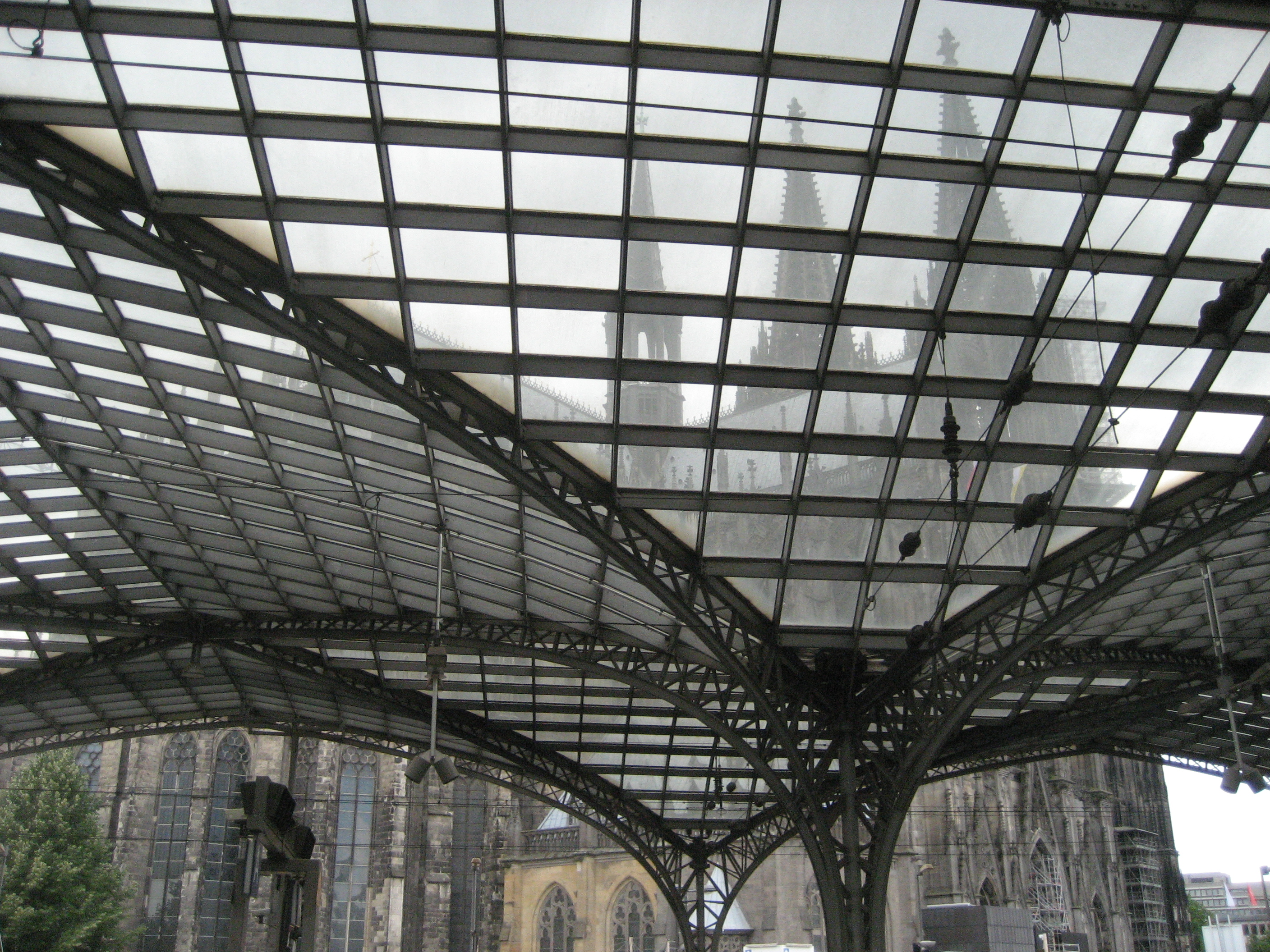 Railway Station Cologne - Dom visible through the rooftop